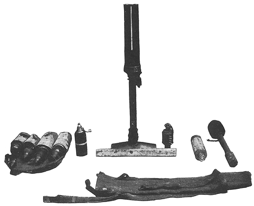 Japanese Type 89 50 mm grenade discharger. From the Second World War.